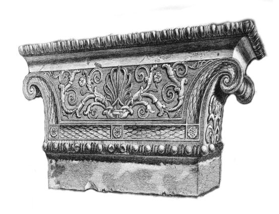 Capital at the Temple of Apollo Didyma